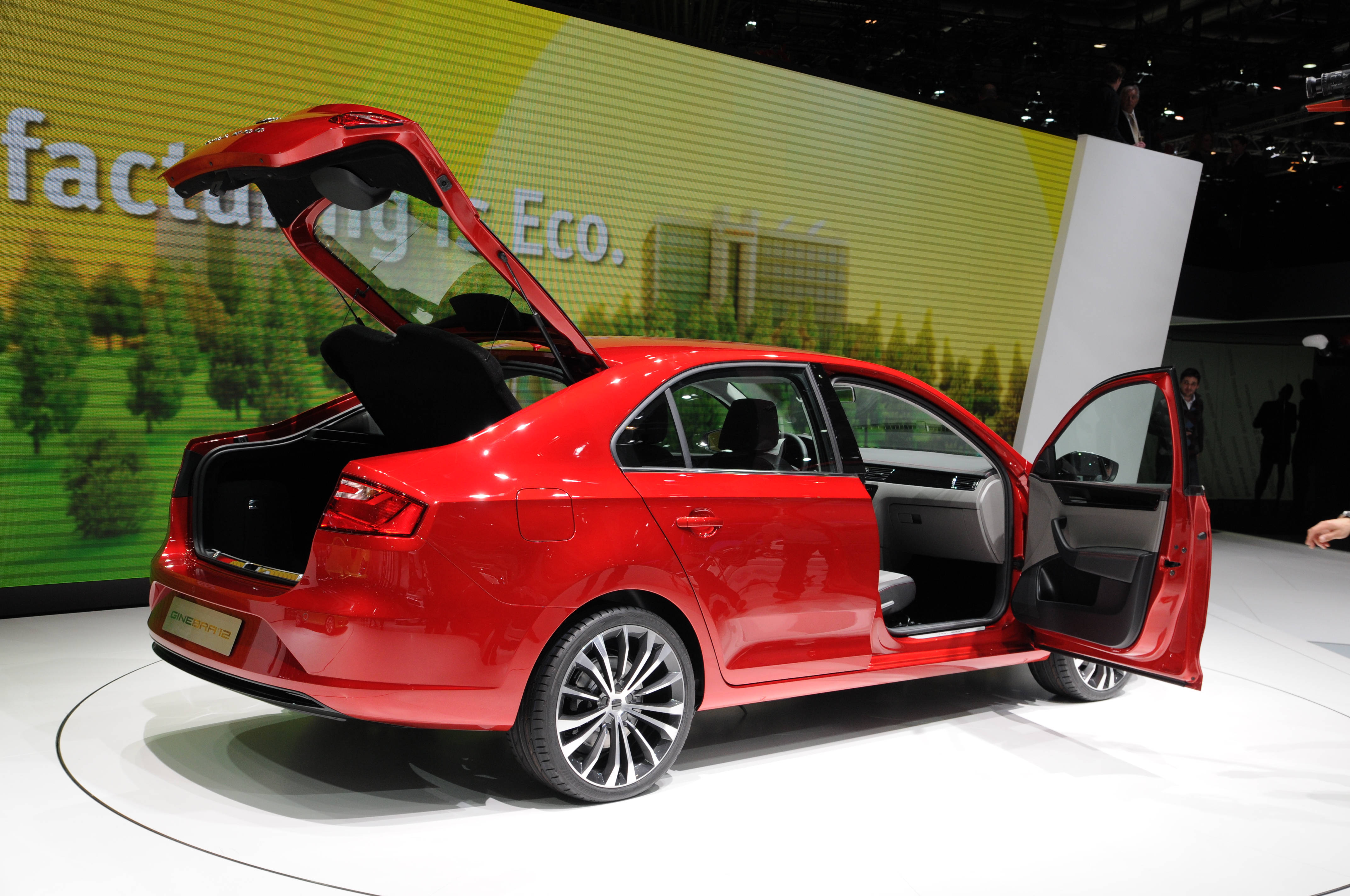 Geneva Motor Show 2012 (photos taken on the second press day)